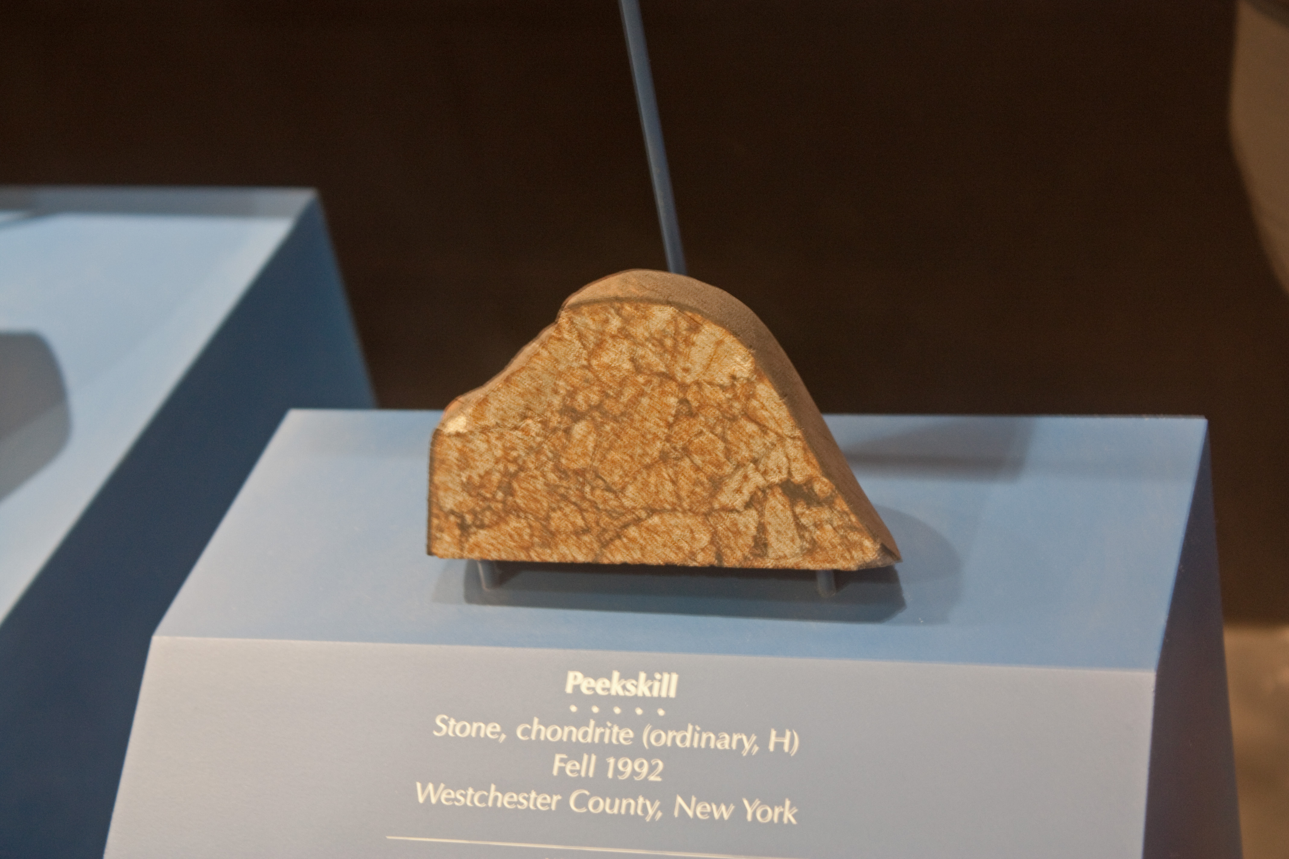 Peekskill meteorite in the National Museum of Natural History. The meteorite hit a parked car in Peekskill, New York in 1992.